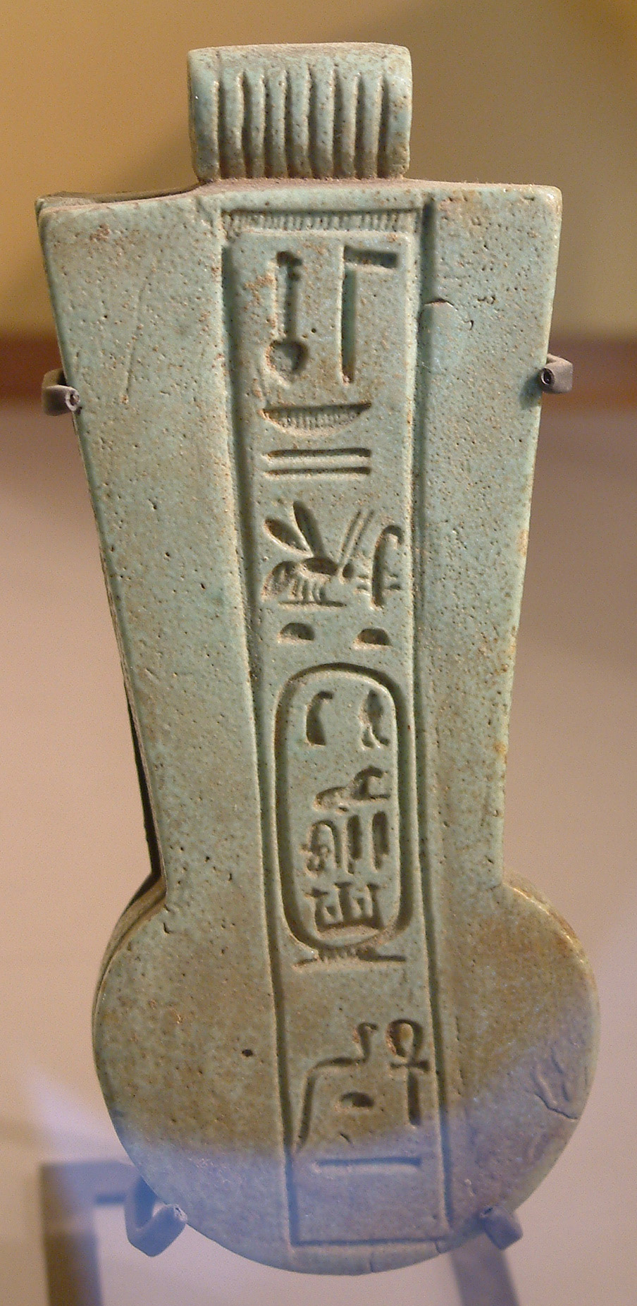 Counterpoise amulet of (Pharaoh)-King Darius I